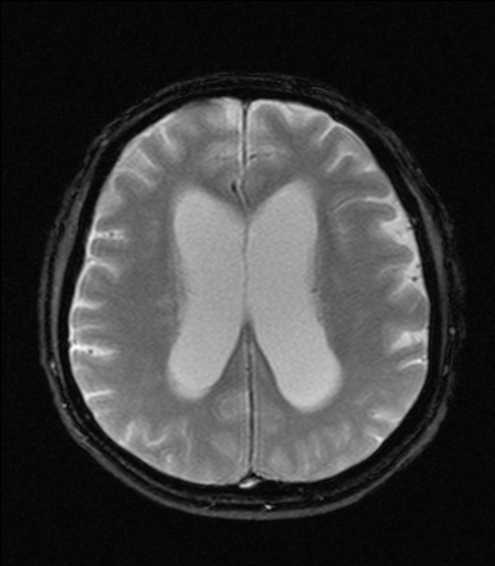 Images from a patient with normal pressure hydrocephalus (NPH)